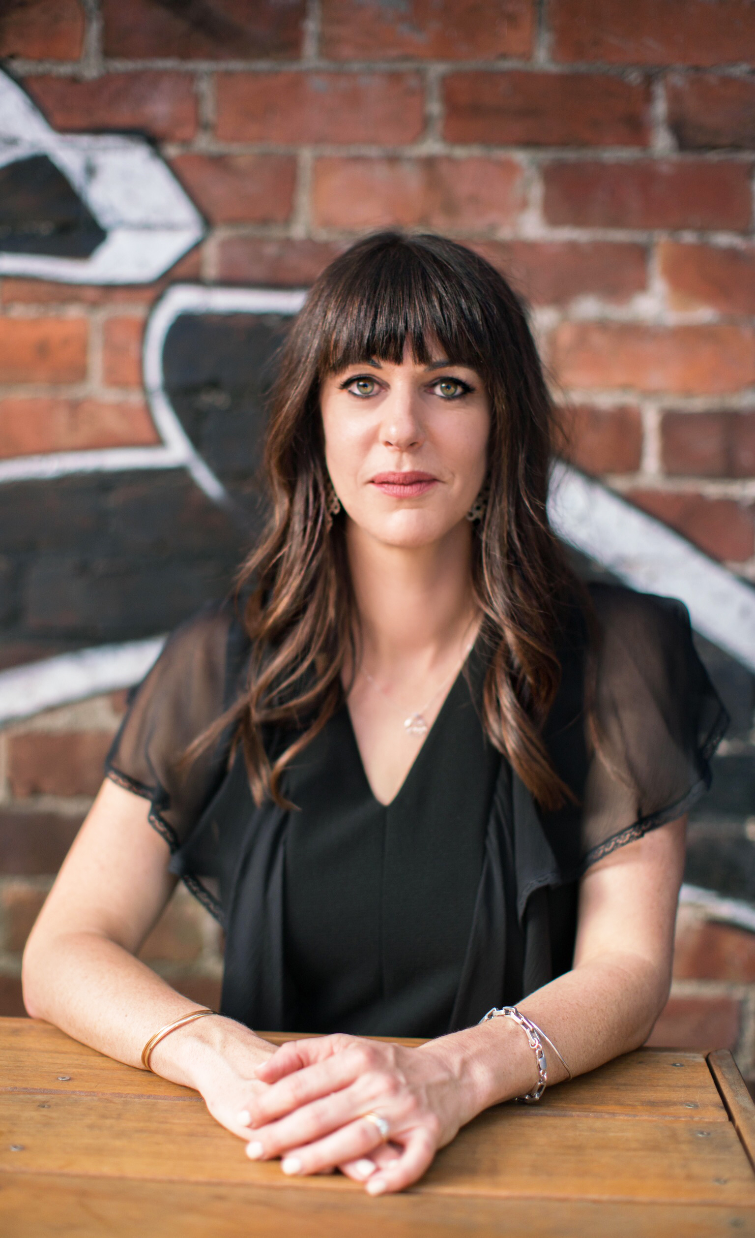 Picture of Film Director & TV Producer Julia Parnell Notable Pictures